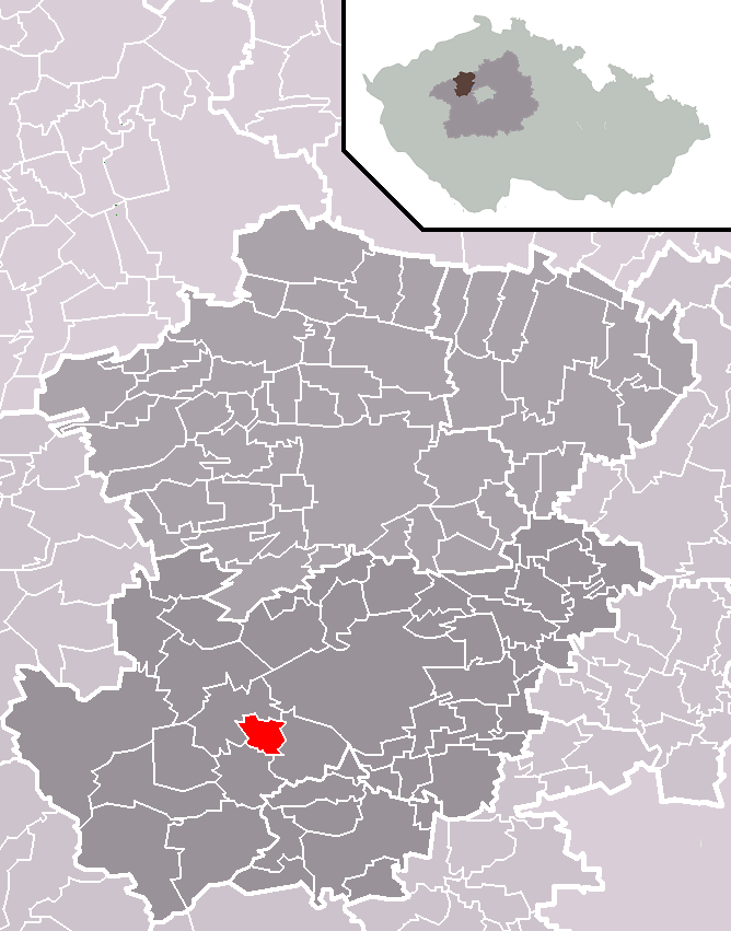 Location of Doksy municipality within Kladno District and administrative area of Kladno as a Municipality with Extended Competence.